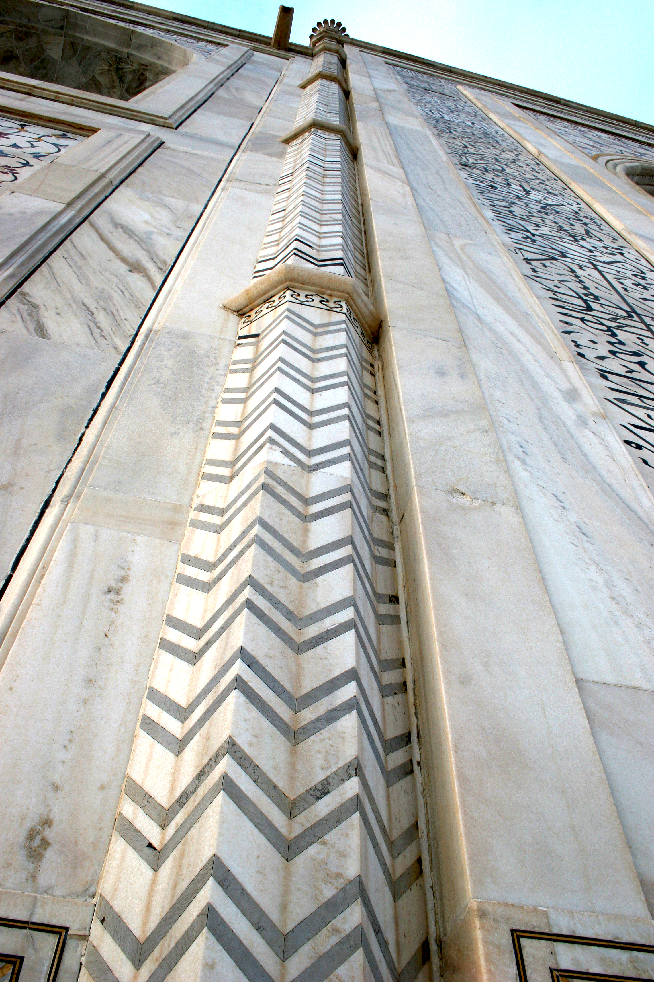 Herringbone pattern on the Taj Mahal. The pattern causes an optic illusion; the shape of the pillar is the same at the bottom as it is further up.